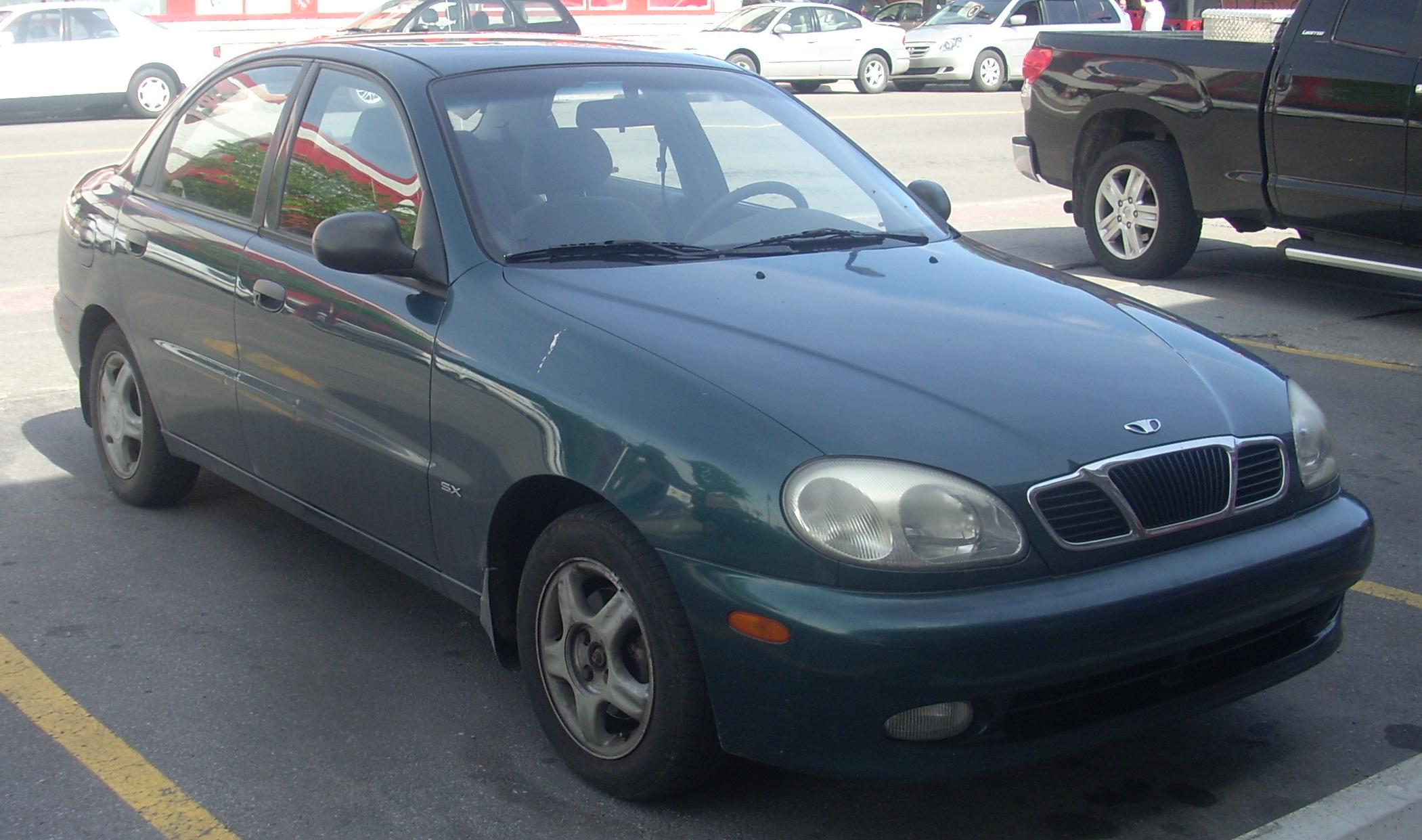 Daewoo Lanos photographed in Montreal, Quebec, Canada.